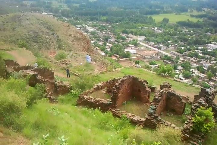 Buddhist ruins This is a photo of a monument in Pakistan identified as the KPK-35